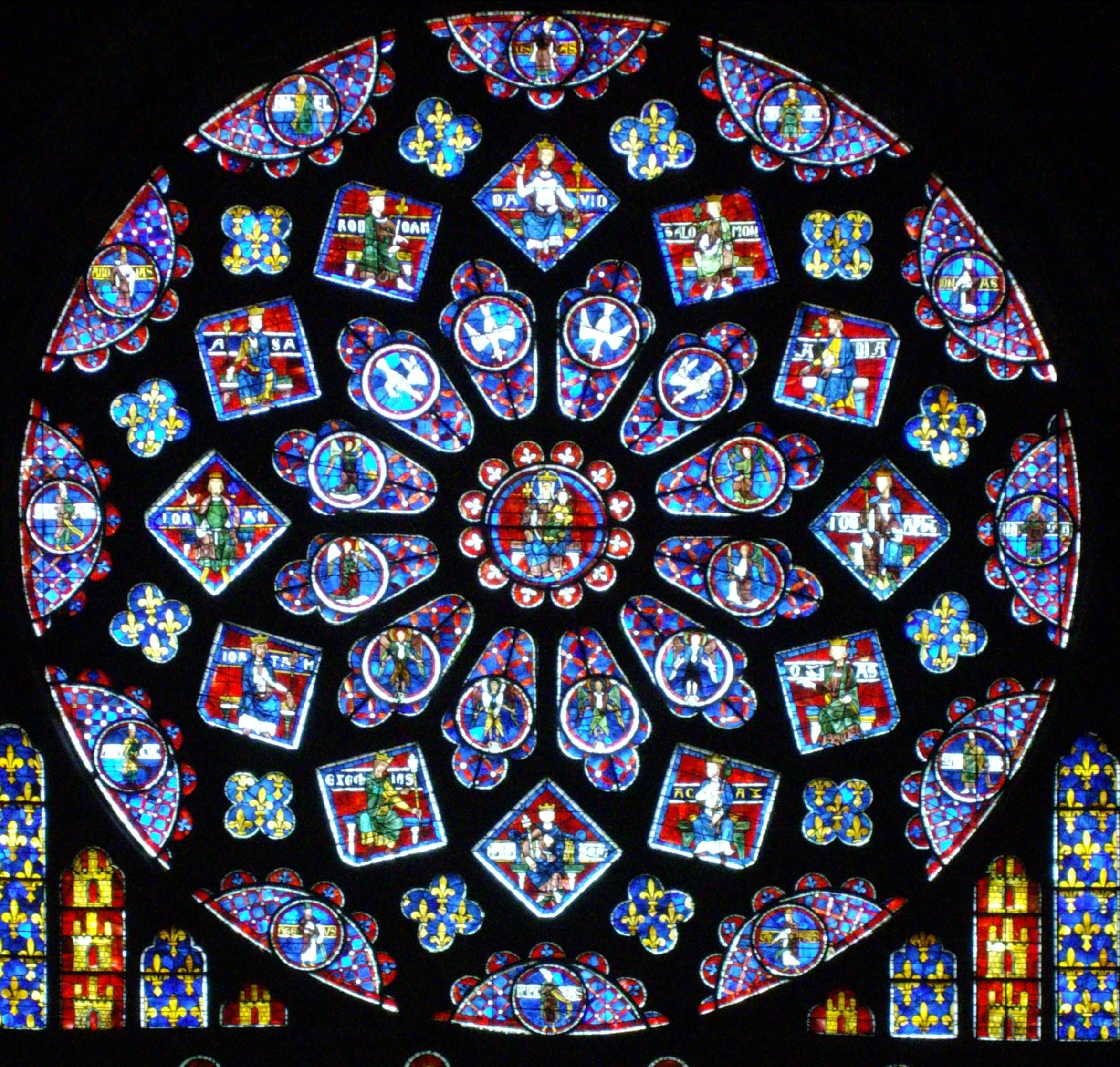 Rose windows of the Chartres Cathedral in Chartres (France)